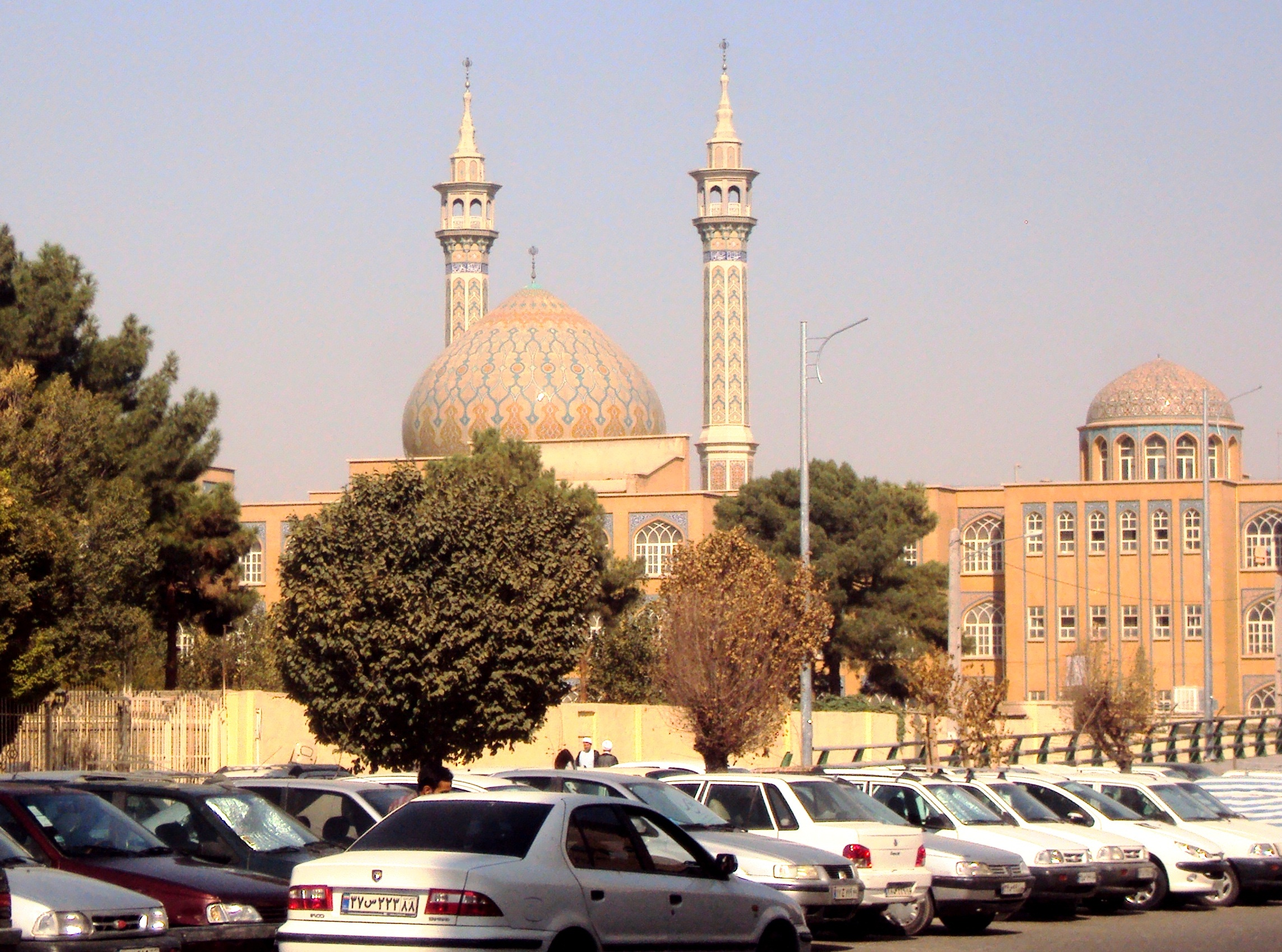 Ma'sumia School, Qom